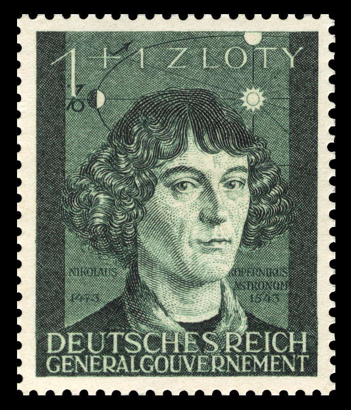 3 years of the General Government, VIPs of culture Ausgabepreis: 1+1 Złoty First Day of Issue / Erstausgabetag: 20. November 1942 Michel-Katalog-Nr: 100 (Generalgouvernement)